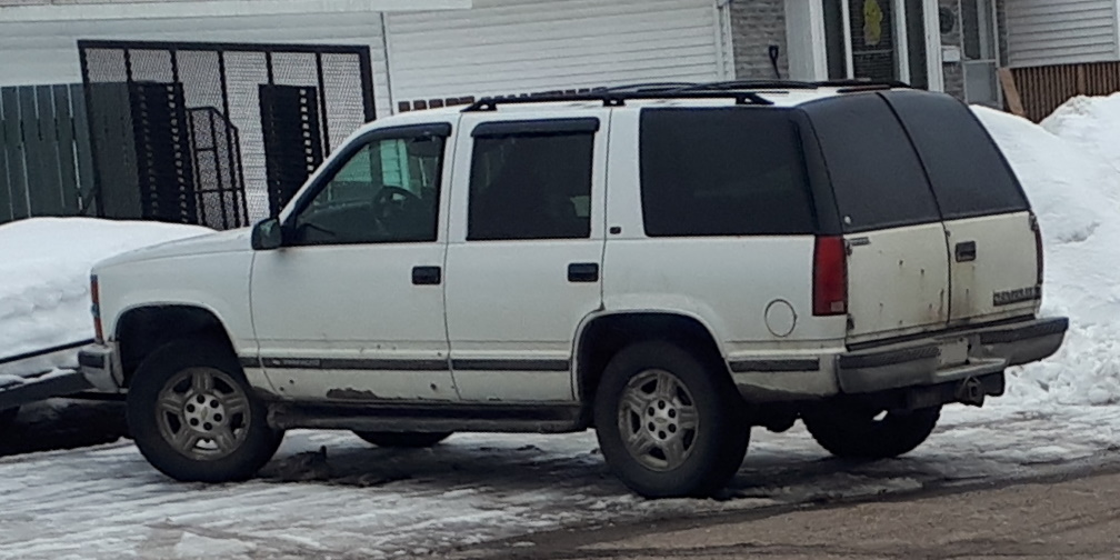 1995-1999 Chevrolet Tahoe 4-door photographed in Sault Ste. Marie, Ontario, Canada